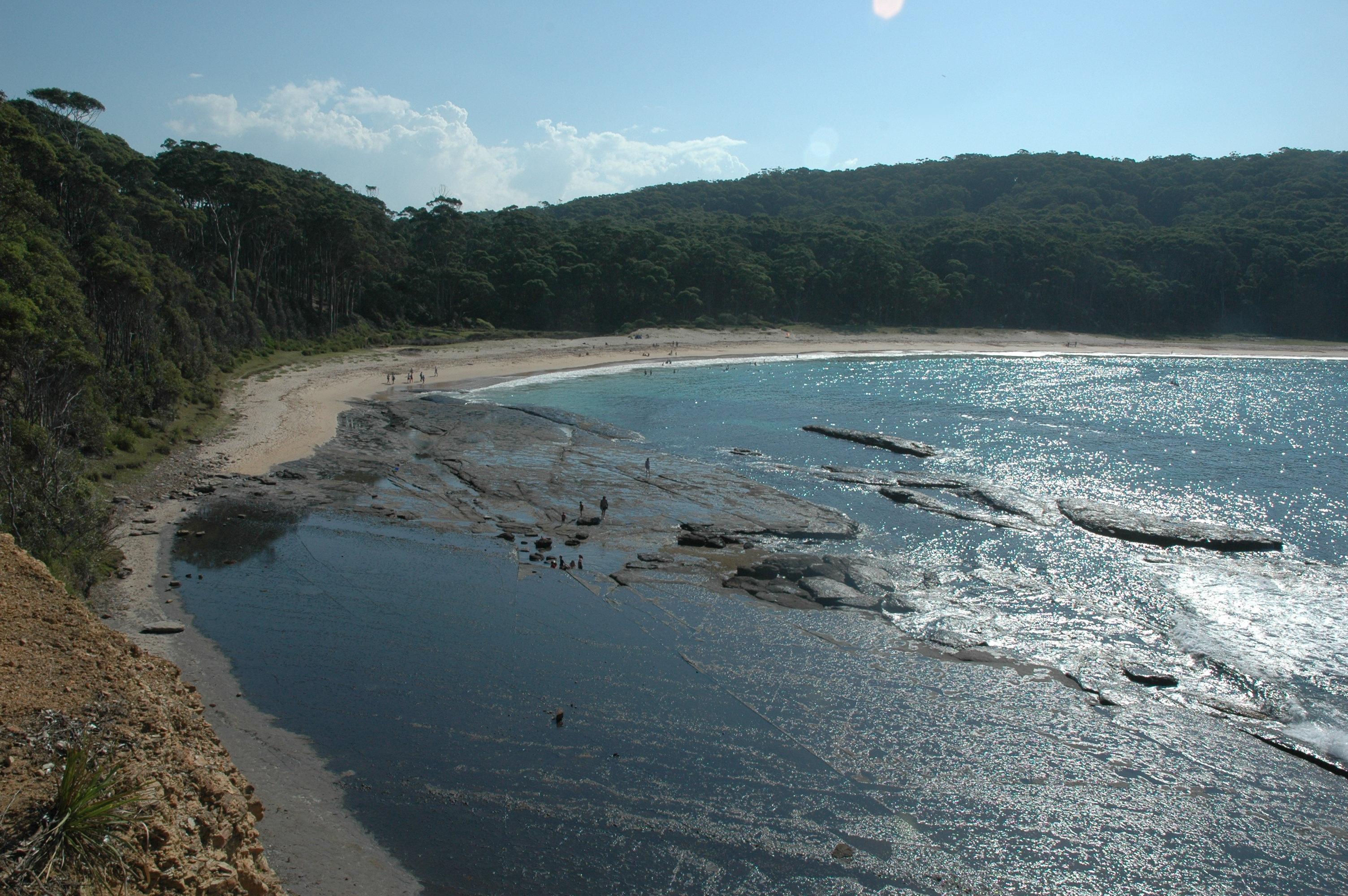 WE de camping a Depot Beach